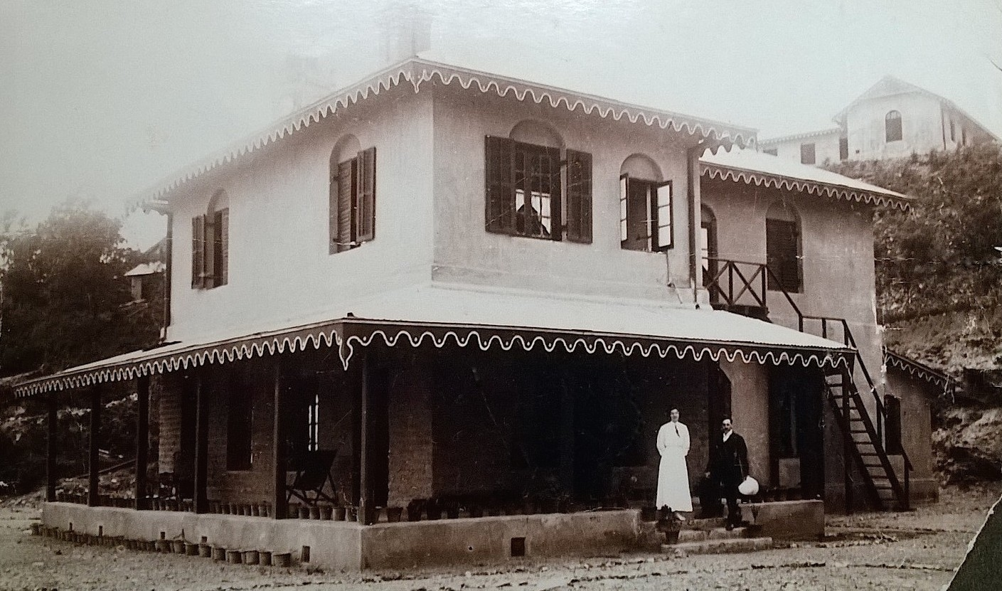 Aeneas Francon Williams (right) on the steps of his residence, Wolseley House, at St. Andrew's Colonial Homes, Kalimpong, 1914